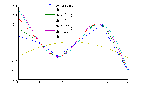 Simple interpolation example for different polyharmonic splines